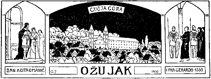 Croatian Catholic calendar in Bosnia and Herzegovina, 1930. Guča Gora near Travnik